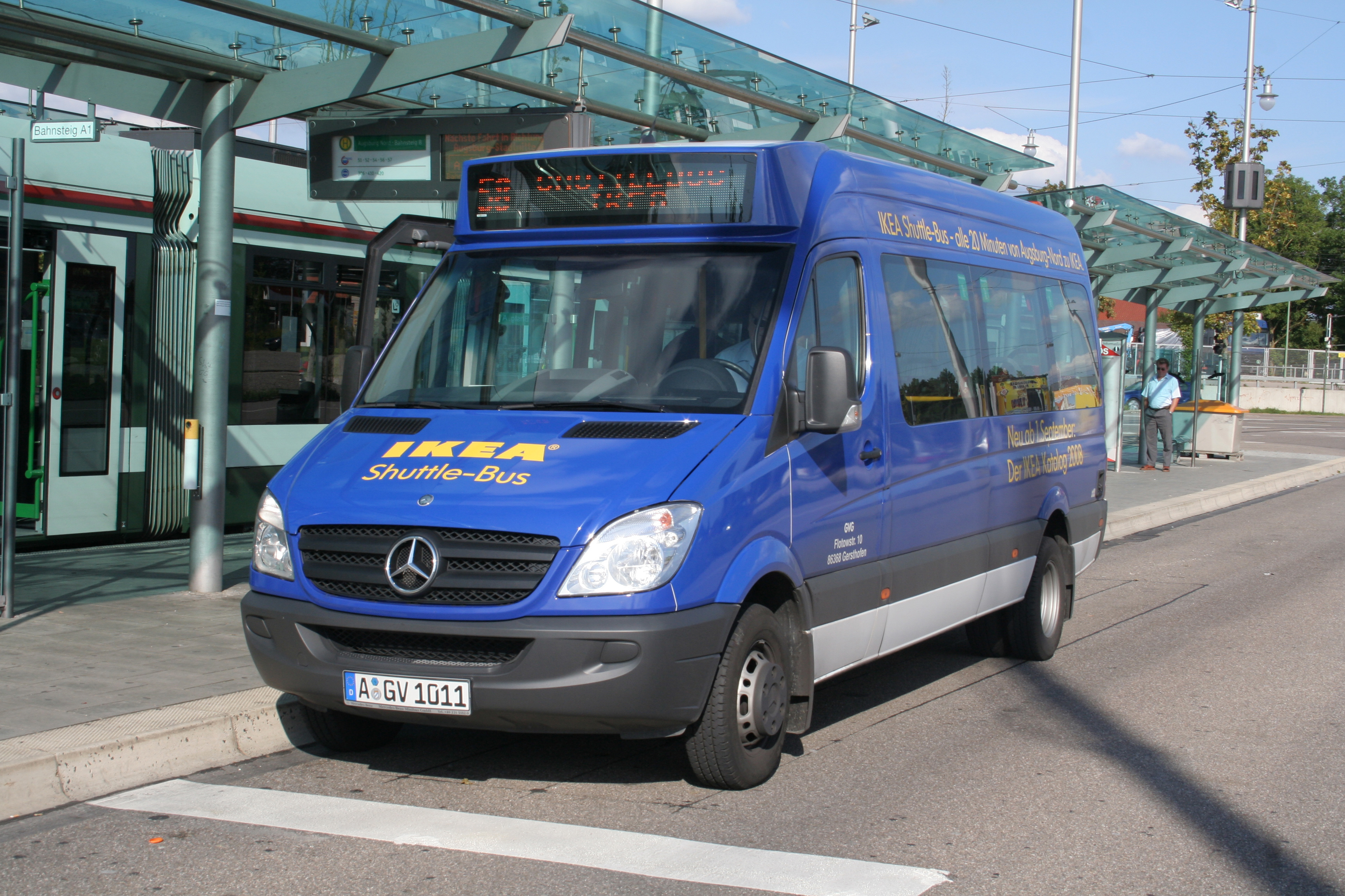 Niederflurbus Mercedes-Benz "Sprinter City 35" mit IKEA-Reklame; Bus Nr. 118 (I) der Gersthofer Verkehrsgesellschaft mbH (GVG). Mittlerweile durch einen blauen "Sprinter City 65" mit gleicher Wagennummer ersetzt.